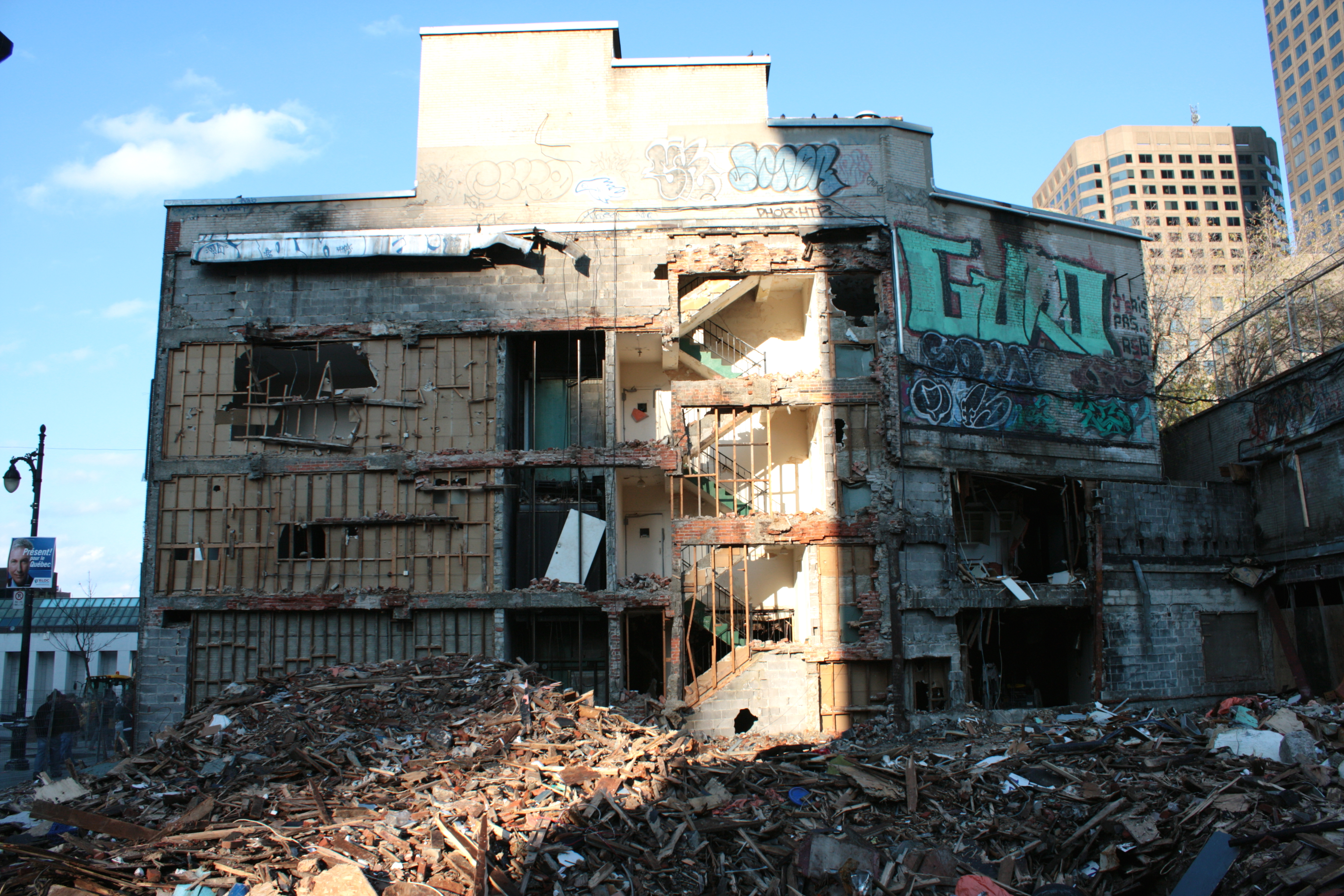 Ground where the Spectrum club in Montreal, Quebec, Canada once stood